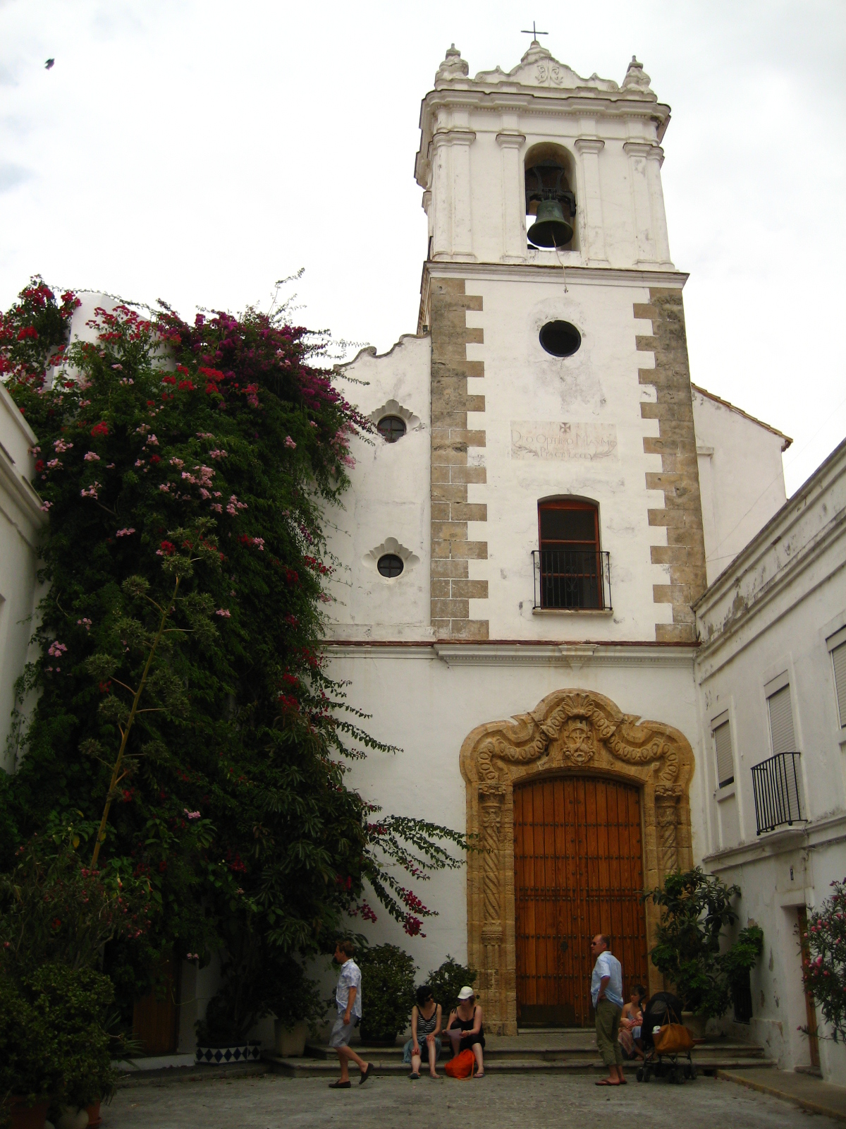 Church of San Francisco, Tarifa.